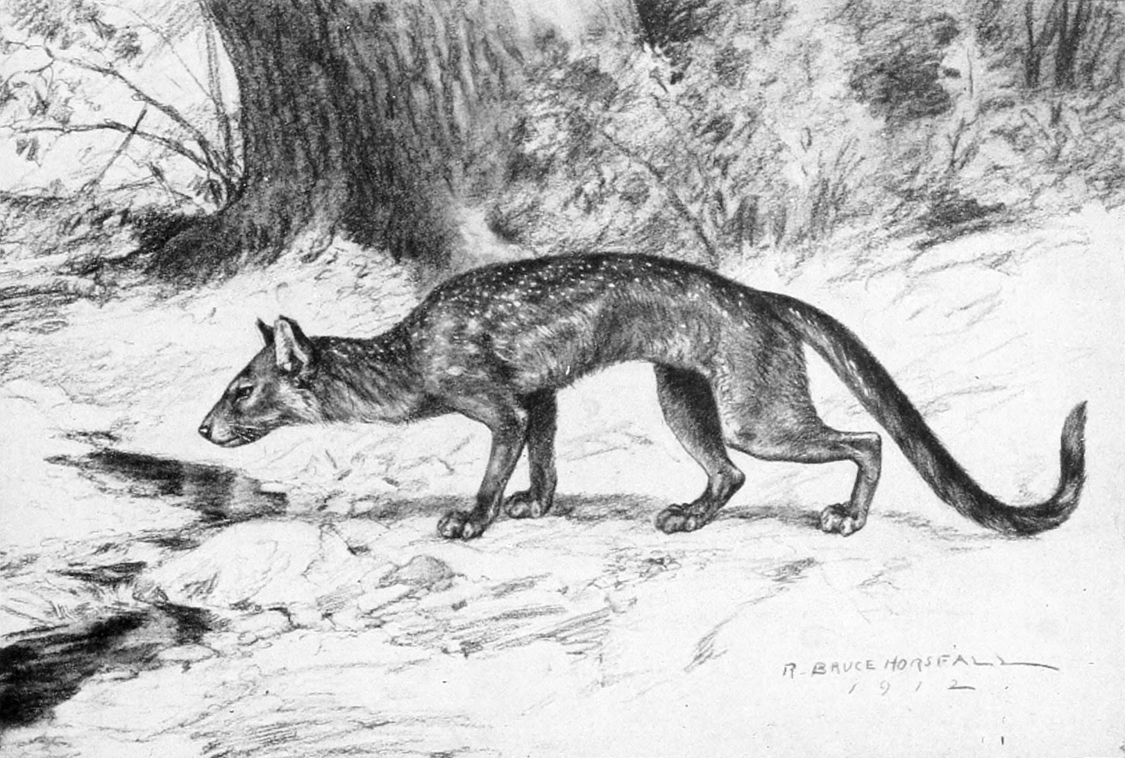 Life restoration of Hesperocyon (formerly Cynodictis) gregarius from W.B. Scott's A History of Land Mammals in the Western Hemisphere. New York: The Macmillan Company.